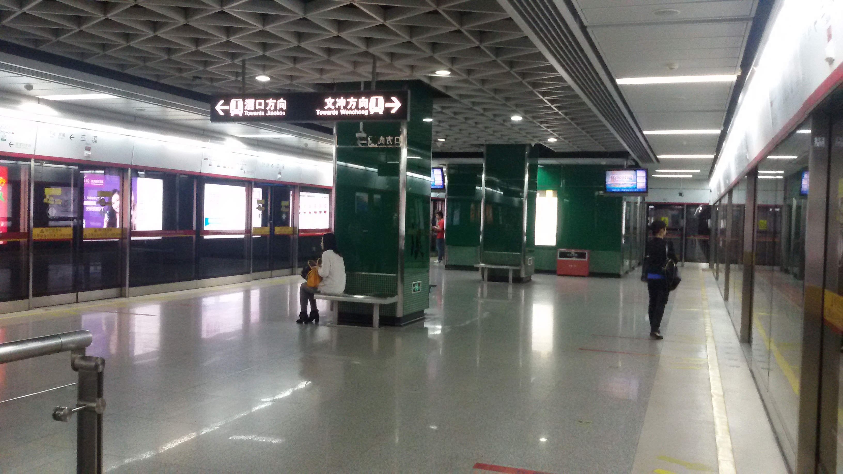 Station Platform for Sanxi Station in Guangzhou Metro.